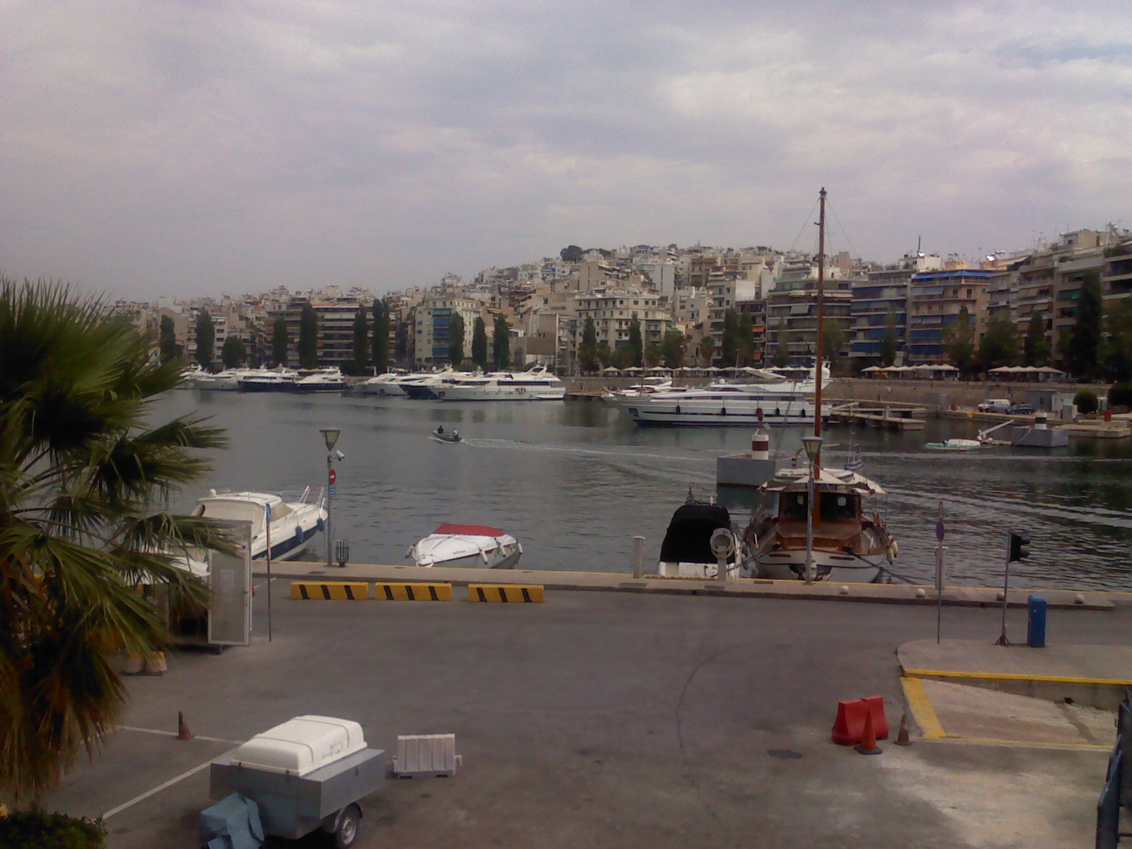 Zea Pireas view